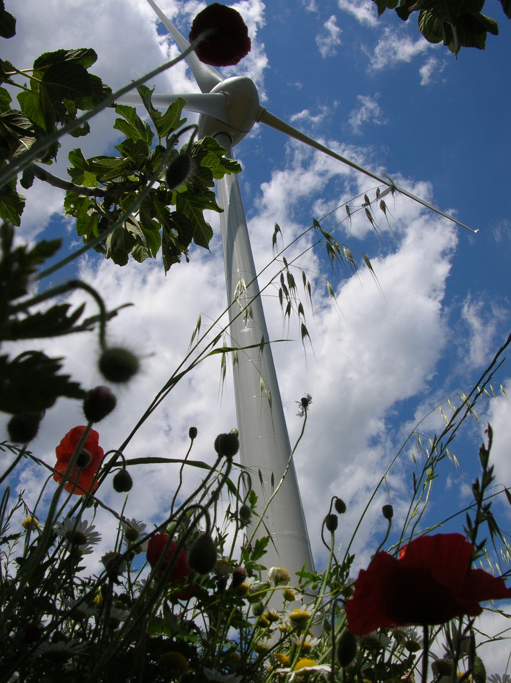 One of the four ENERCON E48 Wind Energy Converters (WECs) of the Tocco Da Casauria wind farm in Italy, near Pescara. This wind farm was the subject of a first page article on the New York Times (September 2010), and considered an example of perfect integration with the community and the environmental sensitivities of a small medieval village in Central Italy. Thanks to revenues from the wind farm, the village could buy and restore the ruins of the local castle. The wind farm has been built and is still managed by SOLO RINNOVABILI SRL, a company from Brescia (Italy).